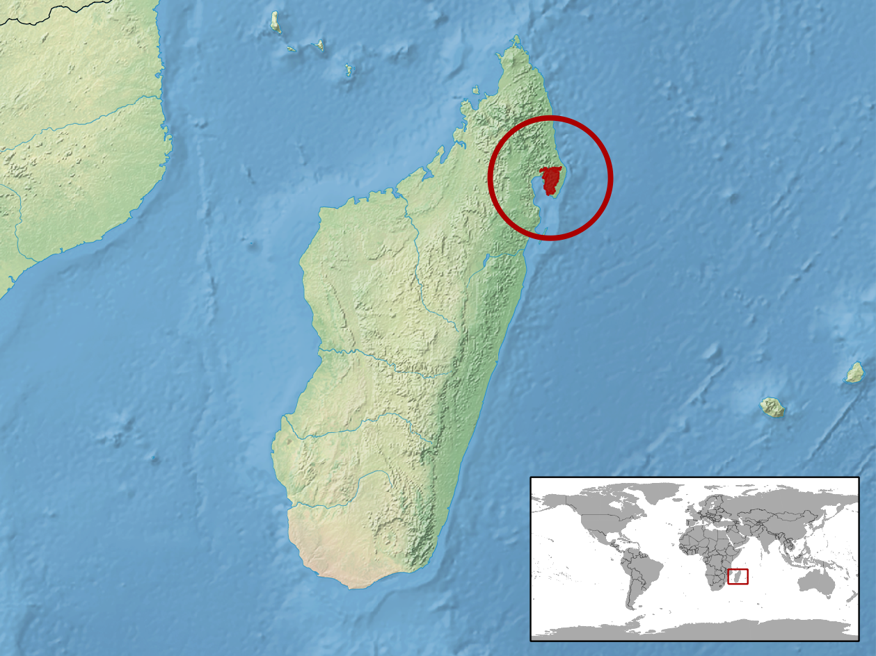 geographic distribution of Amphiglossus stylus